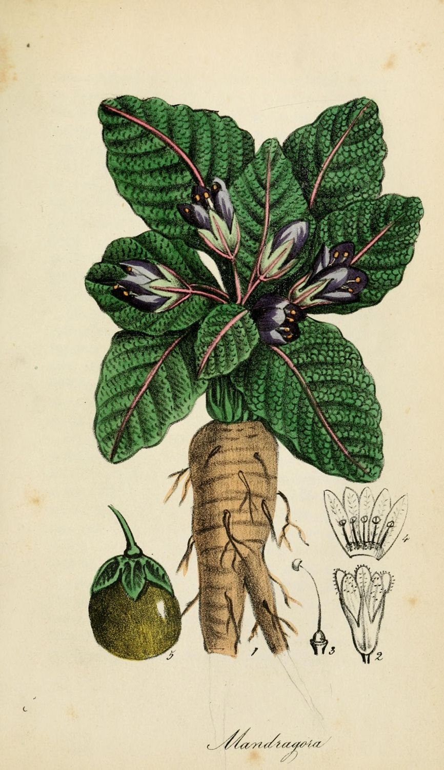 'Mandragora' Mandrake - Mandragora officinarum L. - from Felice Cassone's "Flora medico-farmaceutica, compilata dal dottore", V.4, Torino, Giuseppe Cassone, Facing P. 266